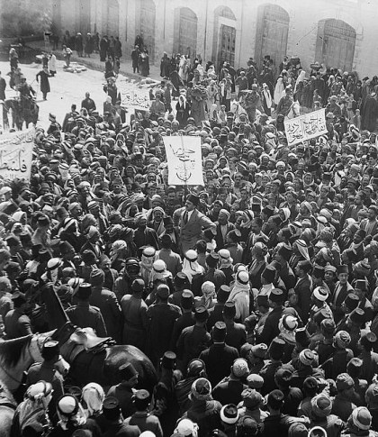 A demonstration by Arabs at the Damascus Gate in Jerusalem on March 8, 1920. The text of the posters supports the annexation of the Land of Israel to the Arab Kingdom of Syria, which was declared on the same day in Damascus under King Faisal